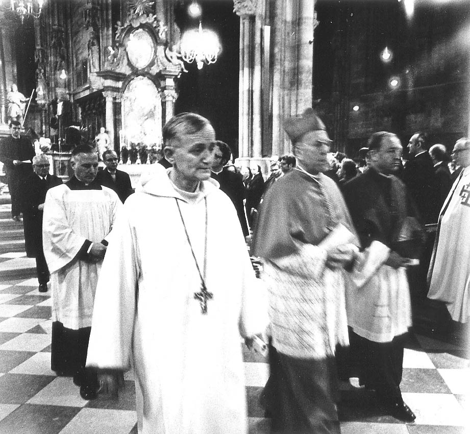 Frère Roger Schütz on occasion of an oecumenic church service in Vienna's St. Stephen's Cathedral. Nikon 24_mm lens, Kodak Tri-X, available light.